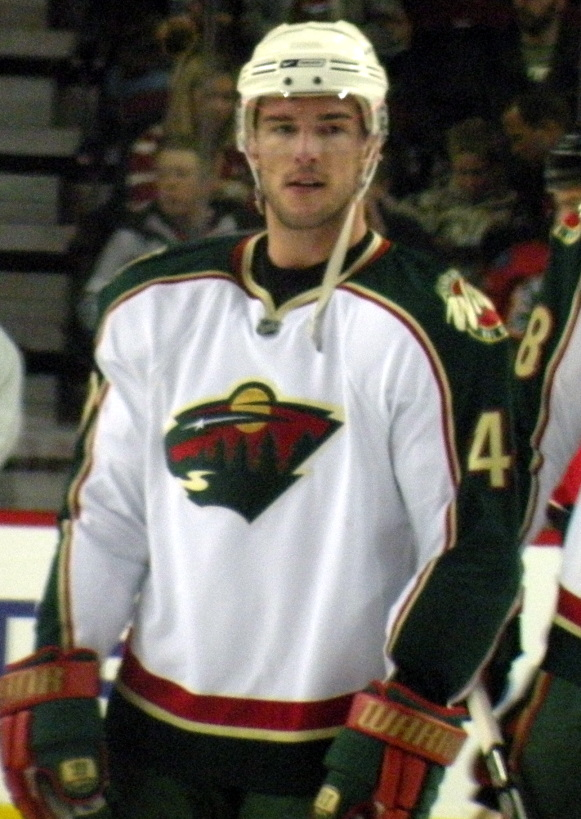 Minnesota Wild forward Dan Fritsche during warm-up prior to a National Hockey League game against the Calgary Flames in Calgary.